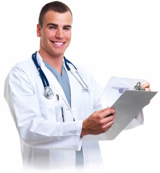 Ortak Sağlık ve Güvenlik Birimi Ortak Sağlık ve Güvenlik Birimi